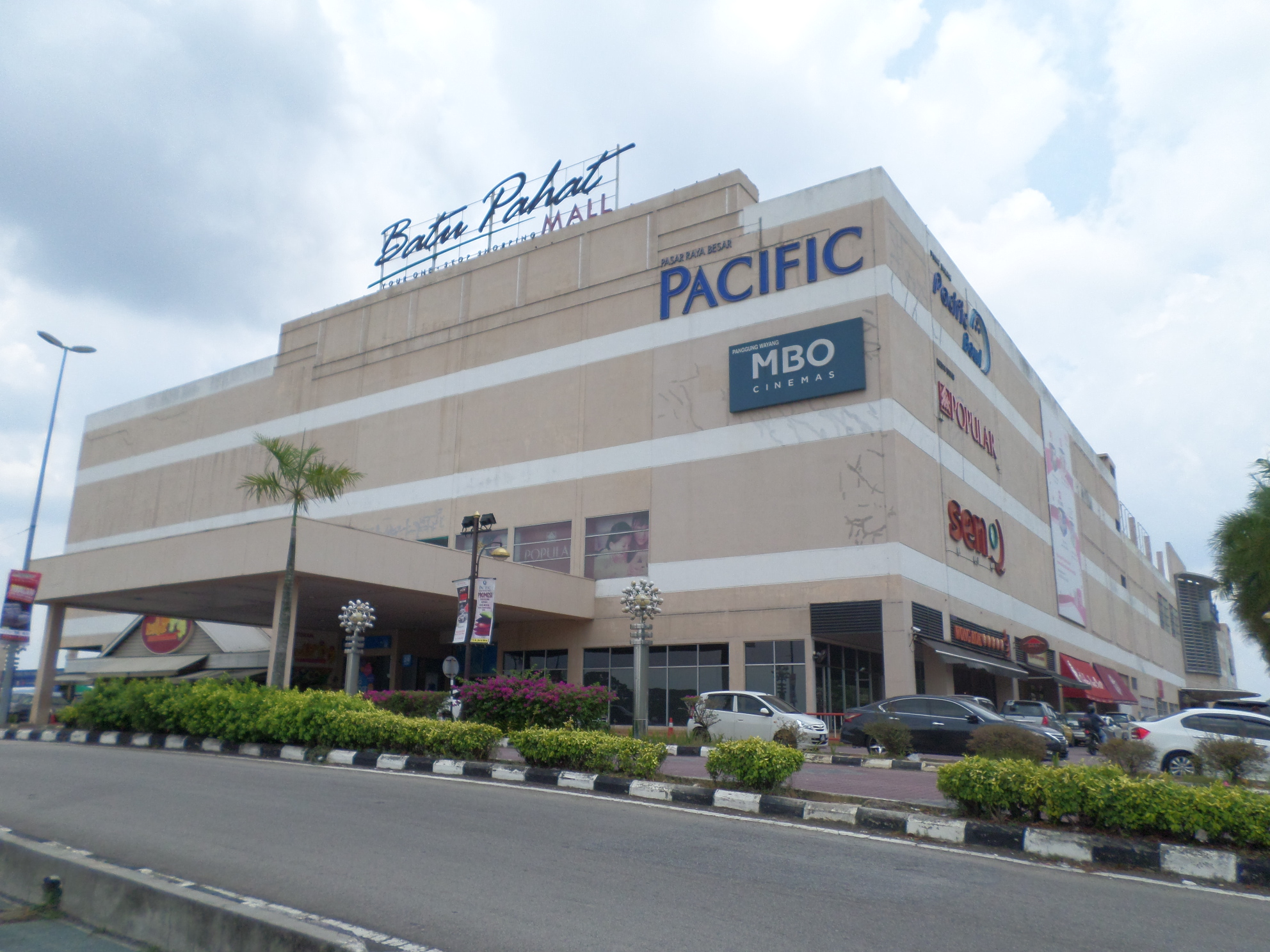 Batu Pahat Mall, Batu Pahat, Johor, Malaysia